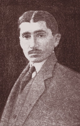 Urmuz, the Romanian writer and judge.